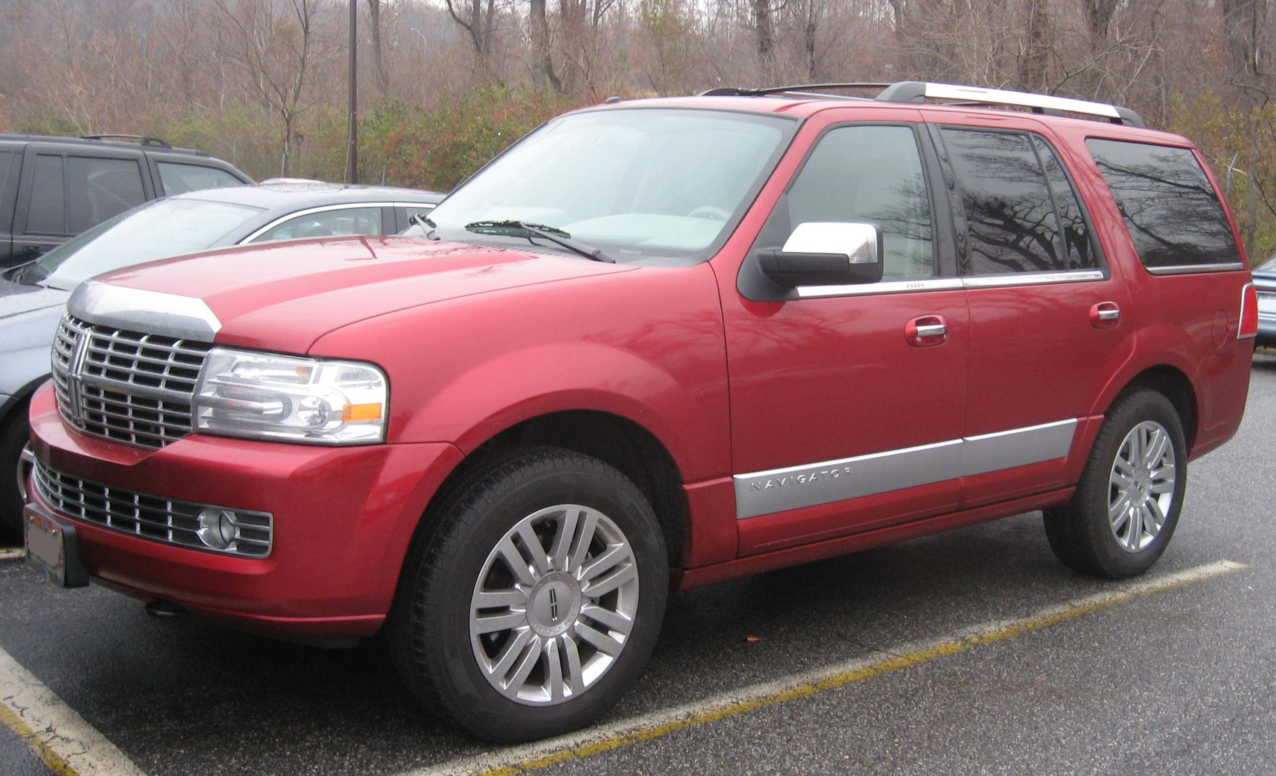 2007-2008 Lincoln Navigator photographed in College Park, Maryland, USA.